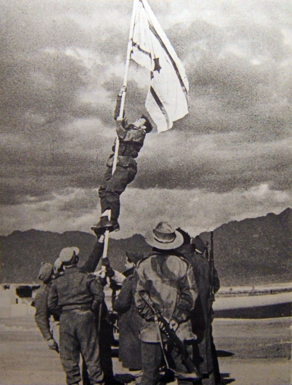 The Ink Flag (Hebrew: דֶּגֶל הַדְּיוֹ, Degel HaDyo) was a handmade Israeli flag raised during the 1948 Arab–Israeli War to mark the capture of Eliat. This image is in the public domain. Translation of the Hebrew notes/comments that were included with the previous version of this image (via Google Translate): Original image was taken by Micah Perry. The picture was taken in 1949 and more than fifty years have passed since taken, and is therefore in the public domain.